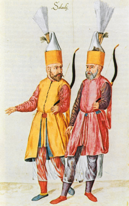 Two members of the select Solaks guard (Janissary archers) of the Ottoman Sultans